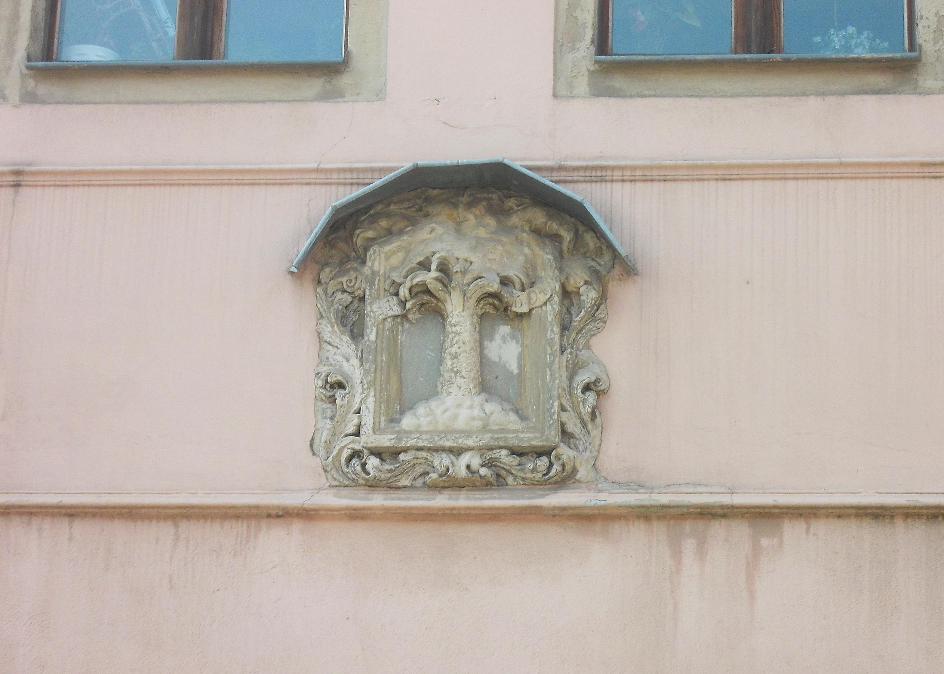 No. 7, Obere Burgstrasse in Merseburg (district: Saalekreis, Saxony-Anhalt), detail